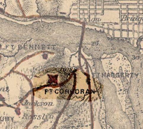 Portion of 1865 map of the defenses of Washington, D.C., published by the U.S. War Department. Close-up shows Fort Corcoran along the banks of the Potomac River.